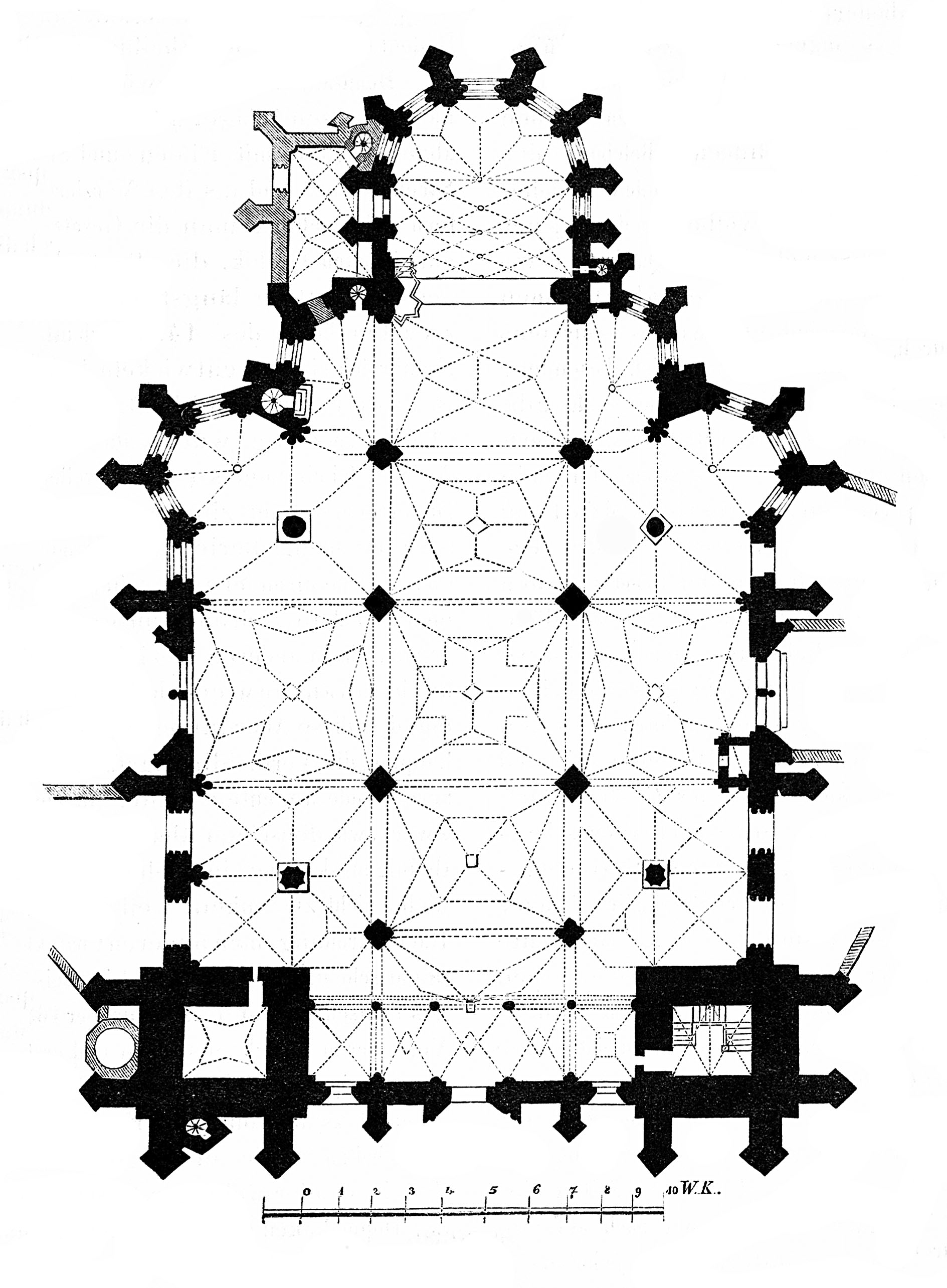 Bilder aus einem Artikel aus den Mittheilungen der kaiserl. königl. Central-Commission zur Erforschung und Erhaltung der Baudenkmale Band 2, 1857.(siehe PDF-Dokument) Scanprojekt Bundesdenkmalamt Österreich This scan or this PDF-file was created within the Austrian Wikipedia-project Denkmalpflege Österreich (German only) supported by Wikimedia Germany and Wikimedia Austria as part of the Wikipedia community-project to collect public domain documents from the library of the Heritage Monuments Board of Austria. This document describes or depicts an object which is located in Slovakia today. Texts are written in German language. Send requests for uncompressed scans to Hubertl. This work is in the public domain in its country of origin and other countries and areas where the copyright term is the author's life plus 100 years or fewer. You must also include a United States public domain tag to indicate why this work is in the public domain in the United States. This file has been identified as being free of known restrictions under copyright law, including all related and neighboring rights.